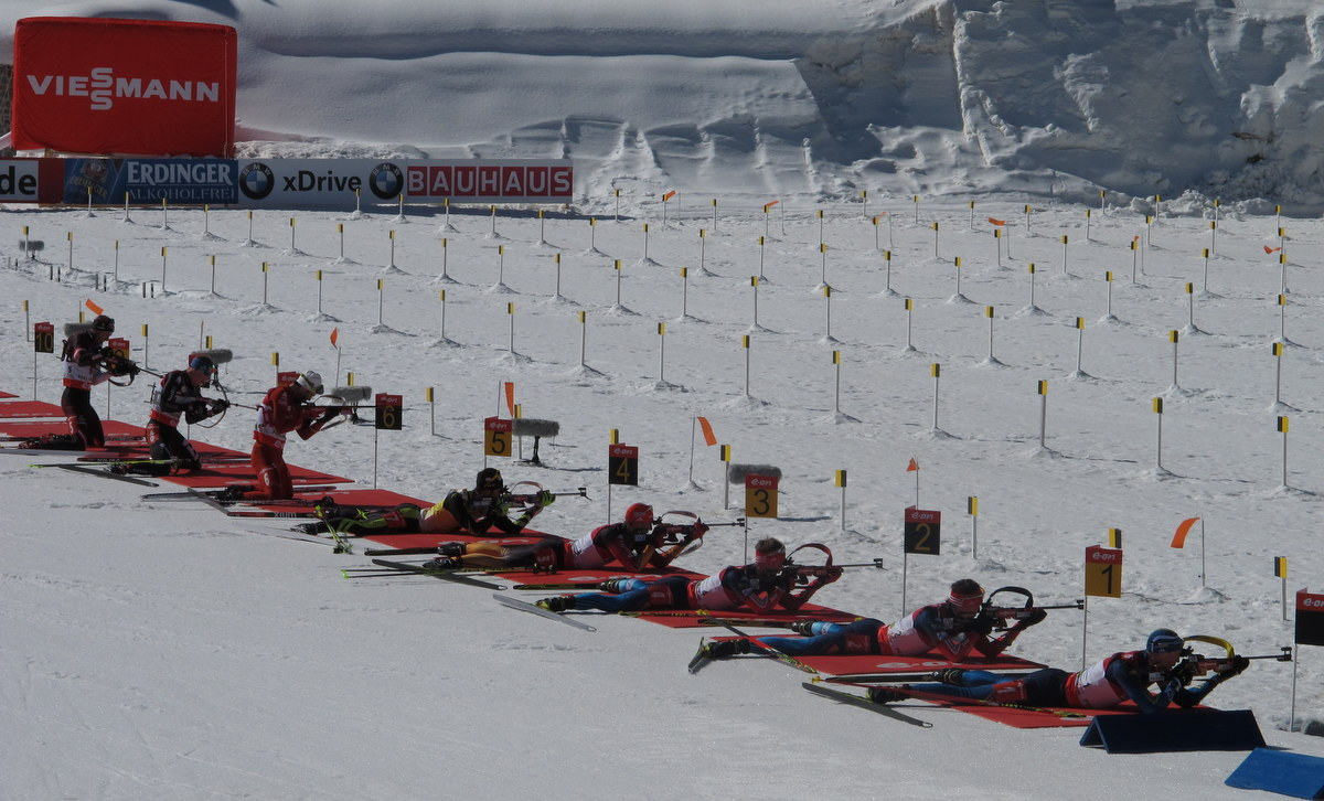 Pokljuka Biathlon World Cup.